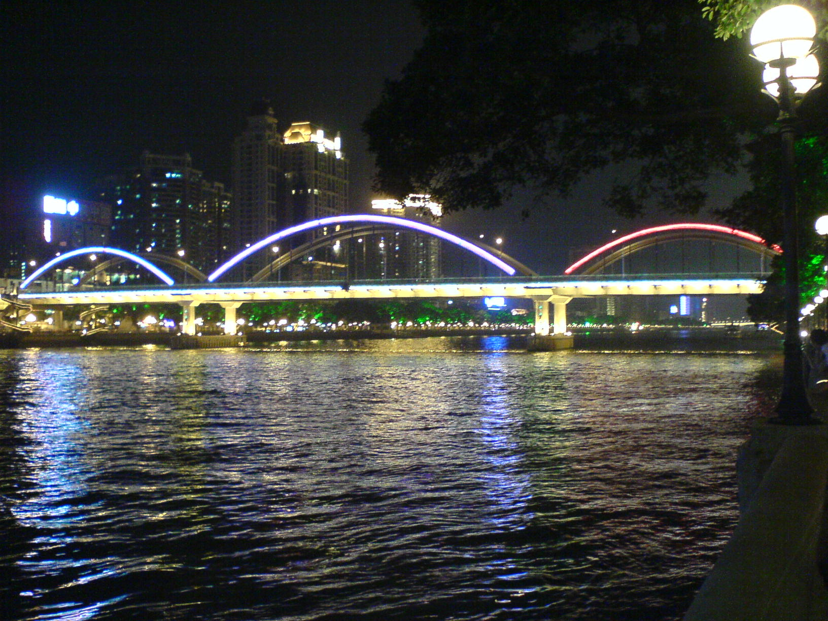 Jiefang Bridge,Guangzhou(Canton)